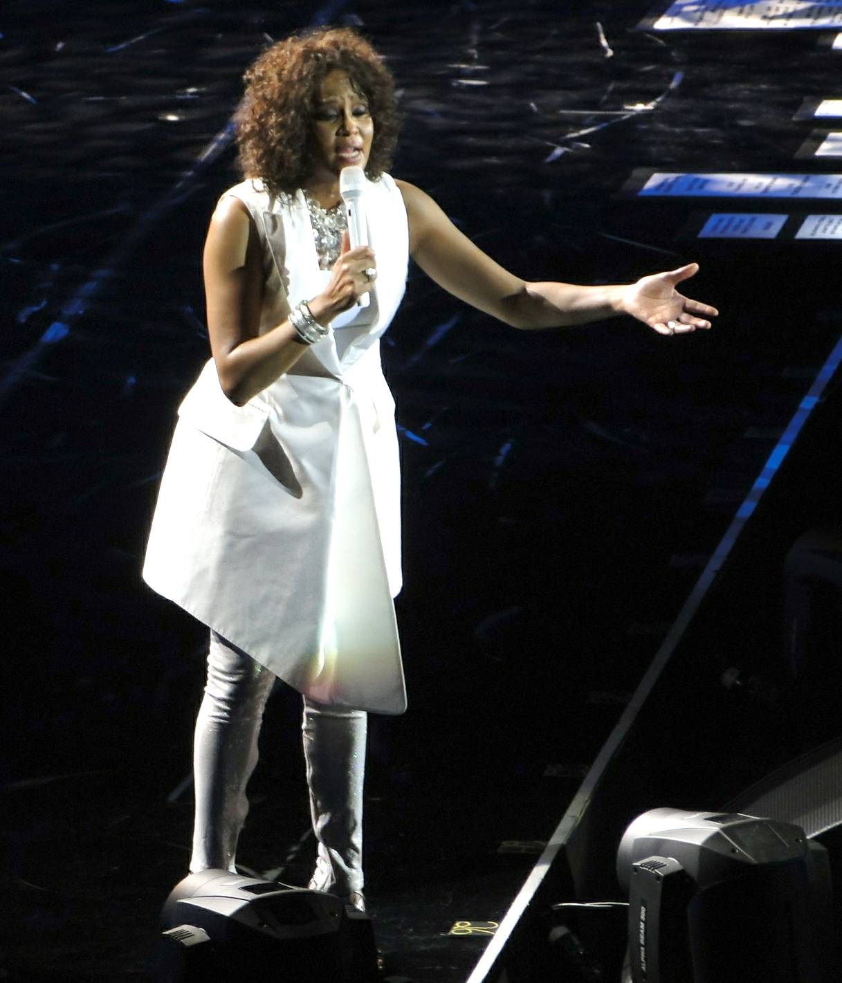 Whitney Houston appearing at the O2 arena, London, 28 April 2010 as part of her Nothing but Love World Tour